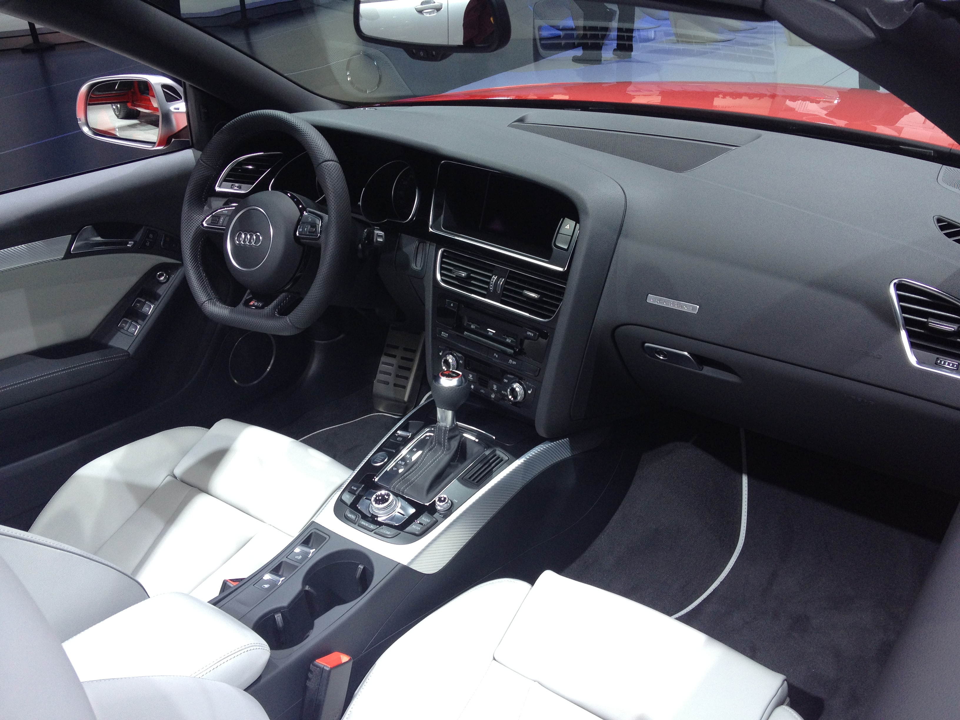 2013 North American International Auto Show Detroit, Michigan